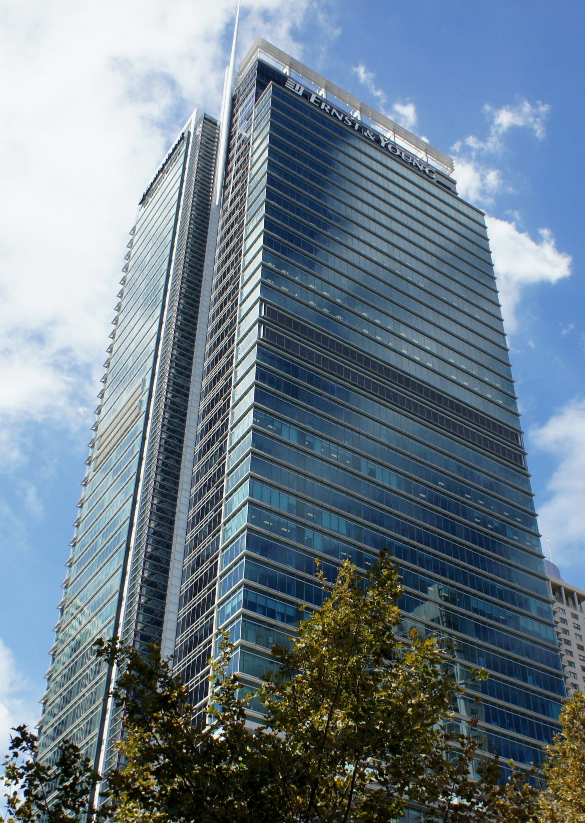 Sydney World Square - cropped